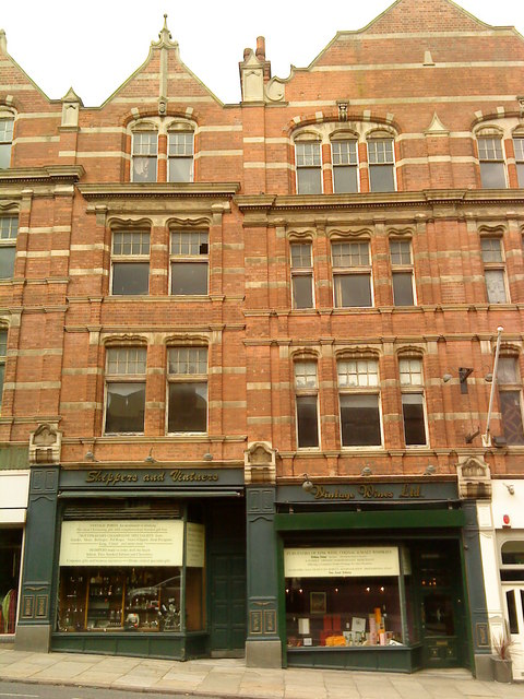 Vintage Wines Ltd, Derby Road